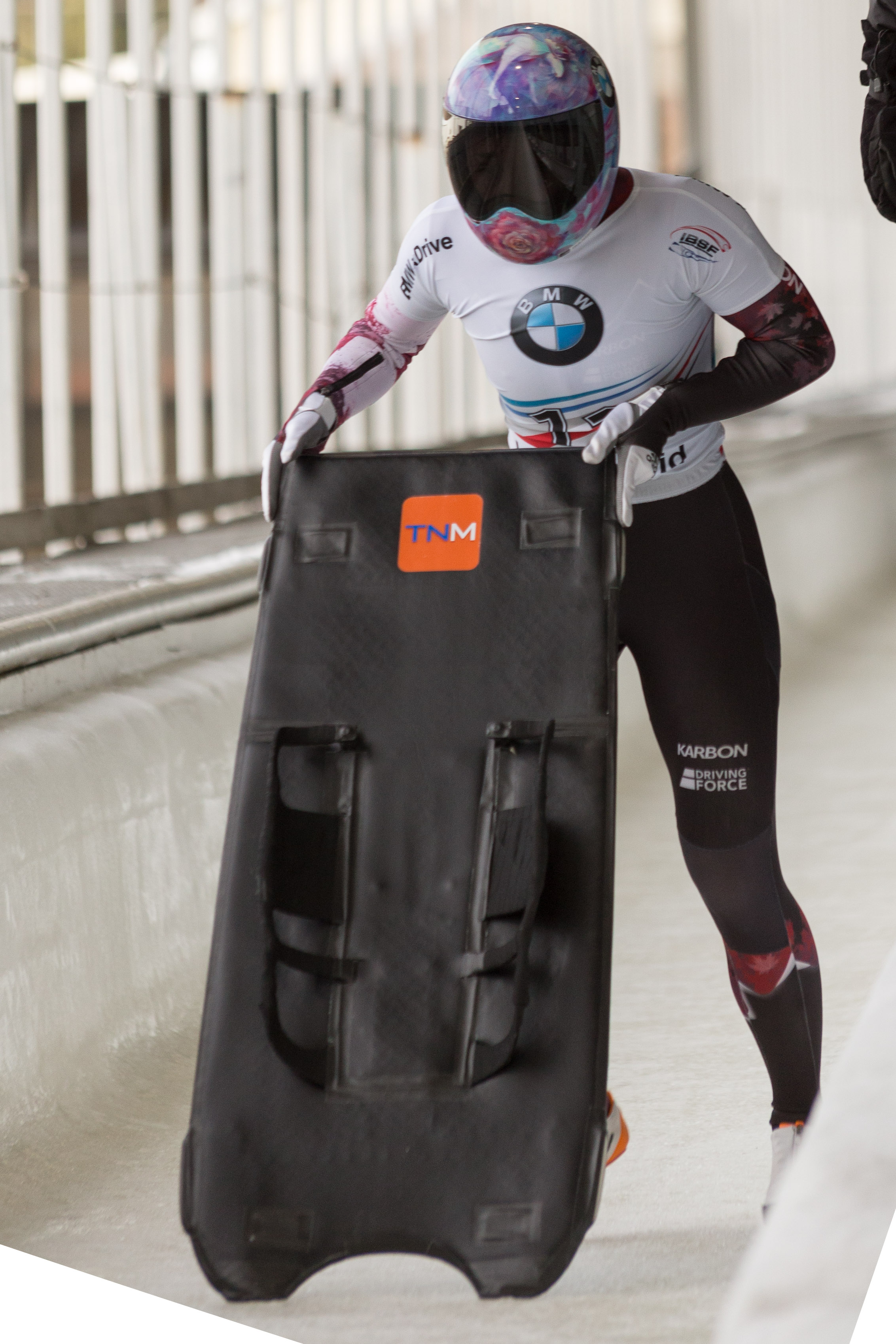 Mirela Rahneva (CAN) picks her sled up off the track at the end of her second run in the IBSF Skeleton World Cup race in Lake Placid. She finished 5th in the second heat and 7th overall.